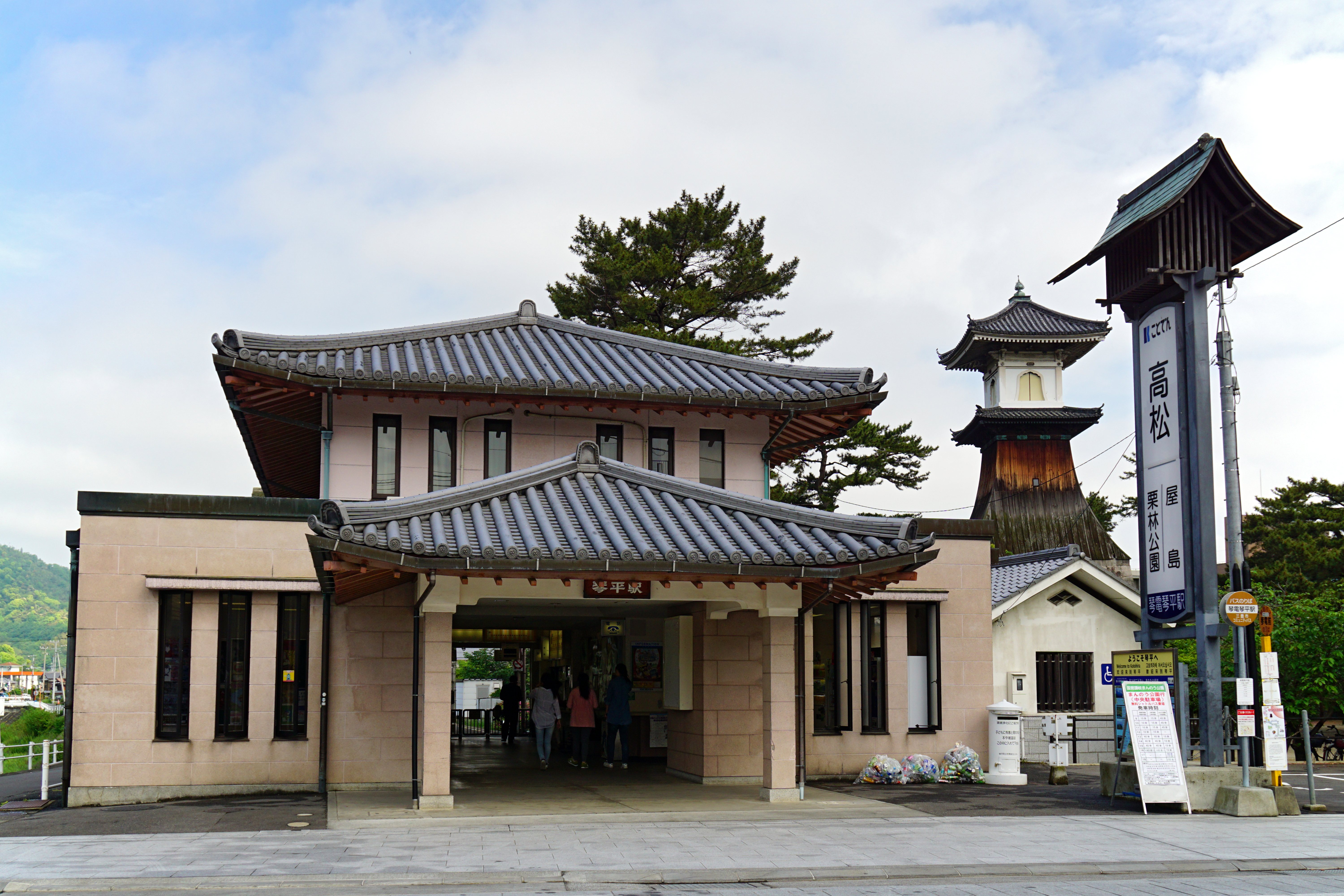 Kotoden-Kotohira Station in Kotohira, Kagawa prefecture, Japan.